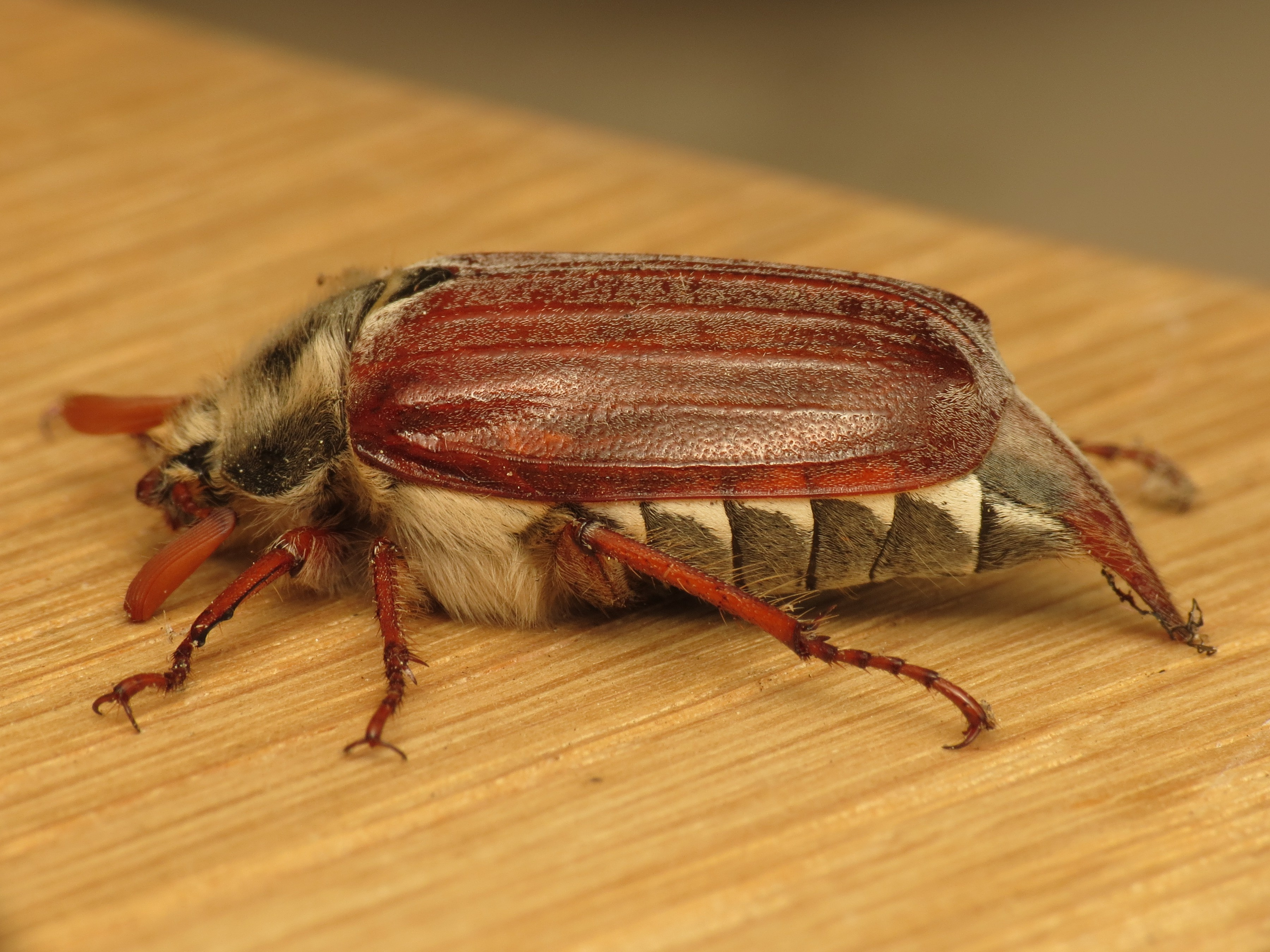 Melolontha melolontha (Linnaeus, 1758), European Cockchafer, to Robinson trap, Hellerup, Denmark, 24/25 May 2013